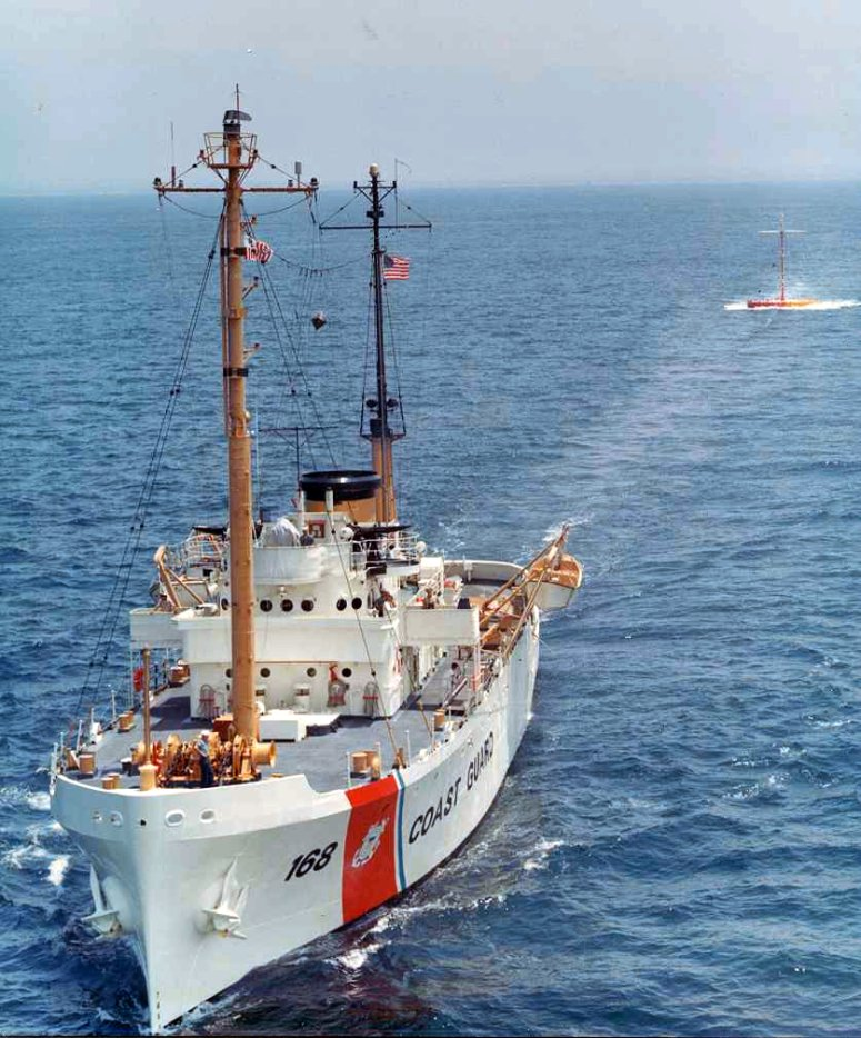 ex-Seize (ARS-26) in Coast Guard service as USCGC Yocona (WMEC-168) underway, date and place unknown. She is towing a buoy. US Coast Guard photo.